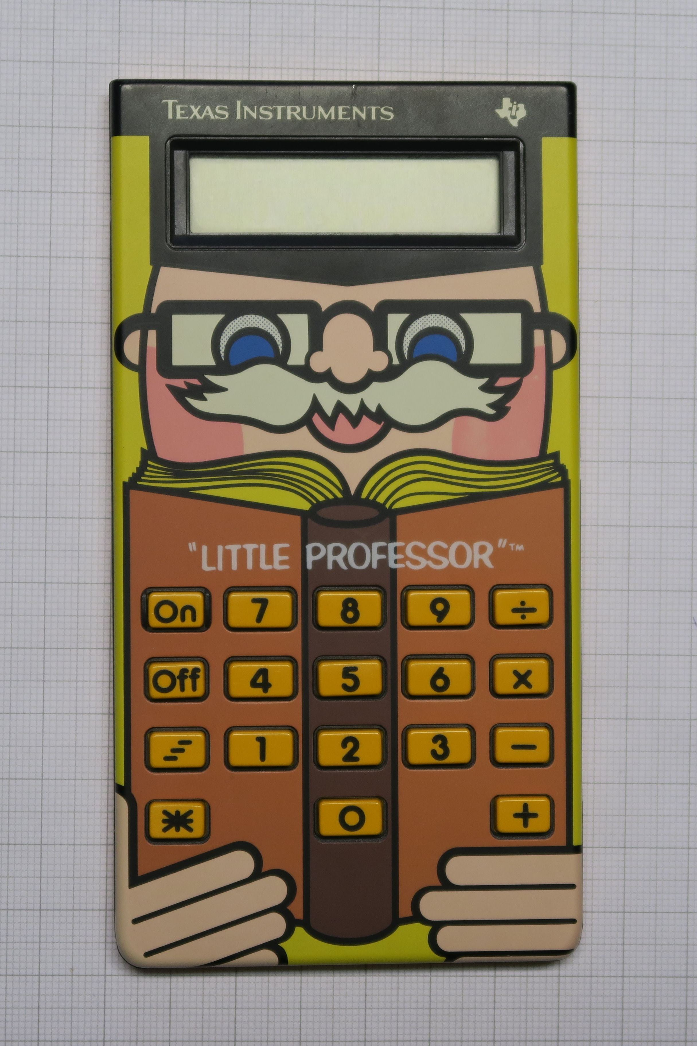 Texas Instruments TI Little Professor AUT 1988